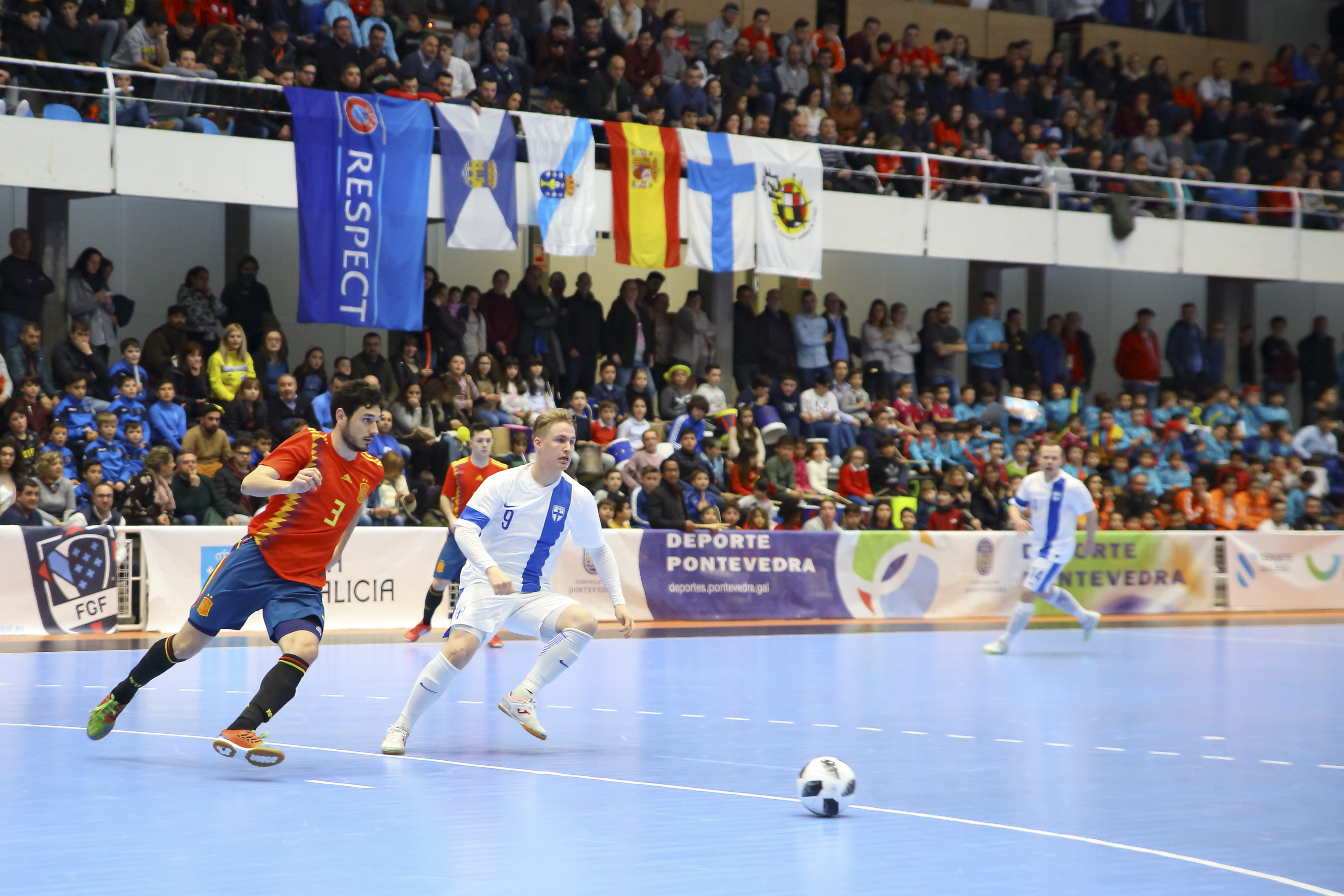 Futsal international friendly match between Spain and Finland at Pabellon Municipal de Pontevedra on April 2, 2018 in Pontevedra, Spain.